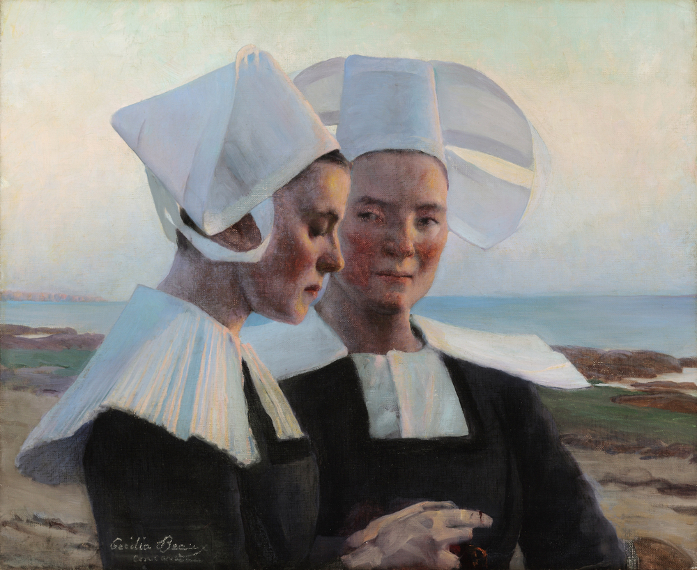 Cecilia Beaux was a leading figure and portrait painter and one of the few distinguished and highly recognized women artists of her time in America. Her figures are frequently compared to Sargent’s, but her style relates also to other international leaders of late-19th Century portraiture, including Anders Zorn, Giuseppe Boldini, Carolus-Duran and William Merritt Chase. She was born and lived mostly in Philadelphia, traveling frequently to Europe, especially France from a young age, and exhibited widely in Paris, Philadelphia, New York and elsewhere. Her first acclaimed work, Les Derniers jours d’enfance, a mother and child composition, was exhibited at the Paris Salon in 1887, and Beaux followed it there the next year, spending the summer of 1888 at the art colony at Concarneau in Brittany. Here she painted her remarkable Twilight Confidences of 1888, preceded by numerous studies, which are in the collection of the Pennsylvania Academy of the Fine Arts. Lost for many years, this much admired canvas is Beaux’s first major exercise in plein-air painting, in which the figures and the seascape are artfully and exquisitely juxtaposed, and sunlight permeates the whole composition.